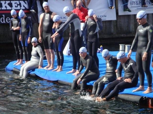 Photo of swimmers about to start the 2000 m open water swim around Christiansborg Castle in Copenhagen